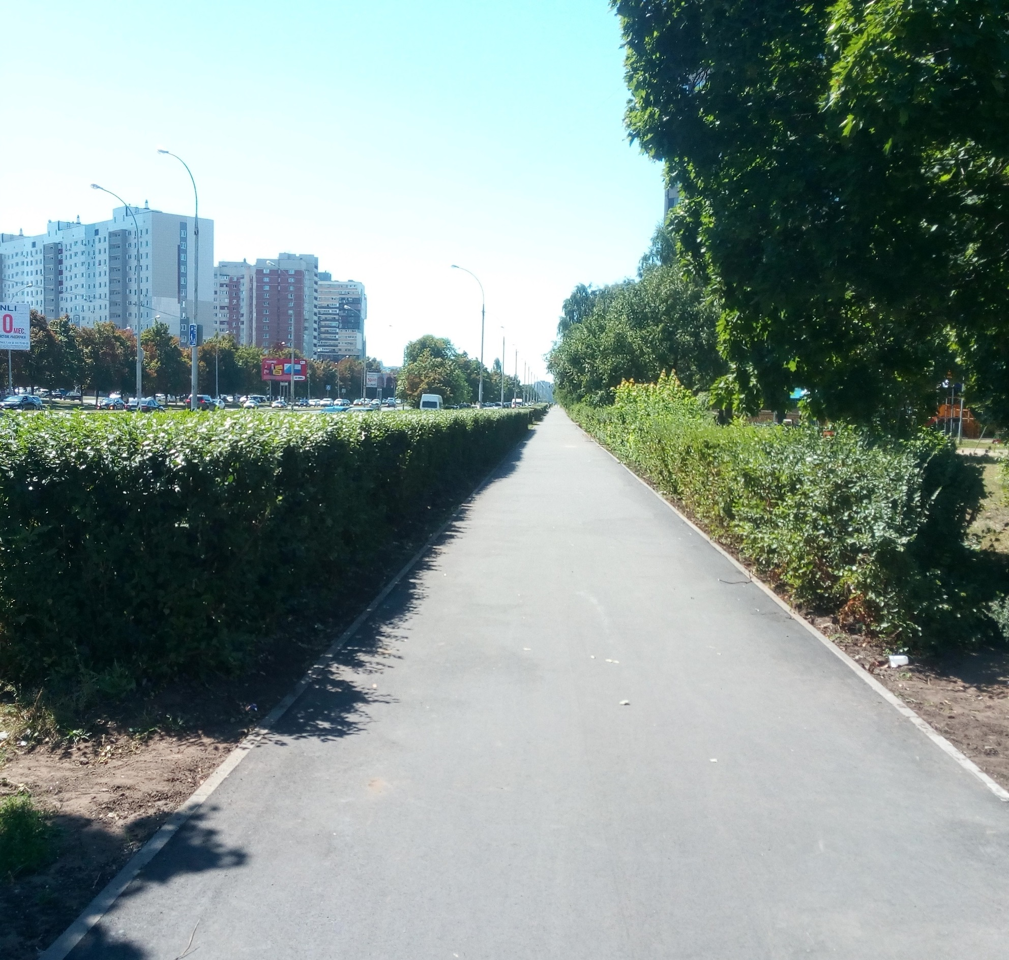 Street 40 years of Victory, city Togliatti